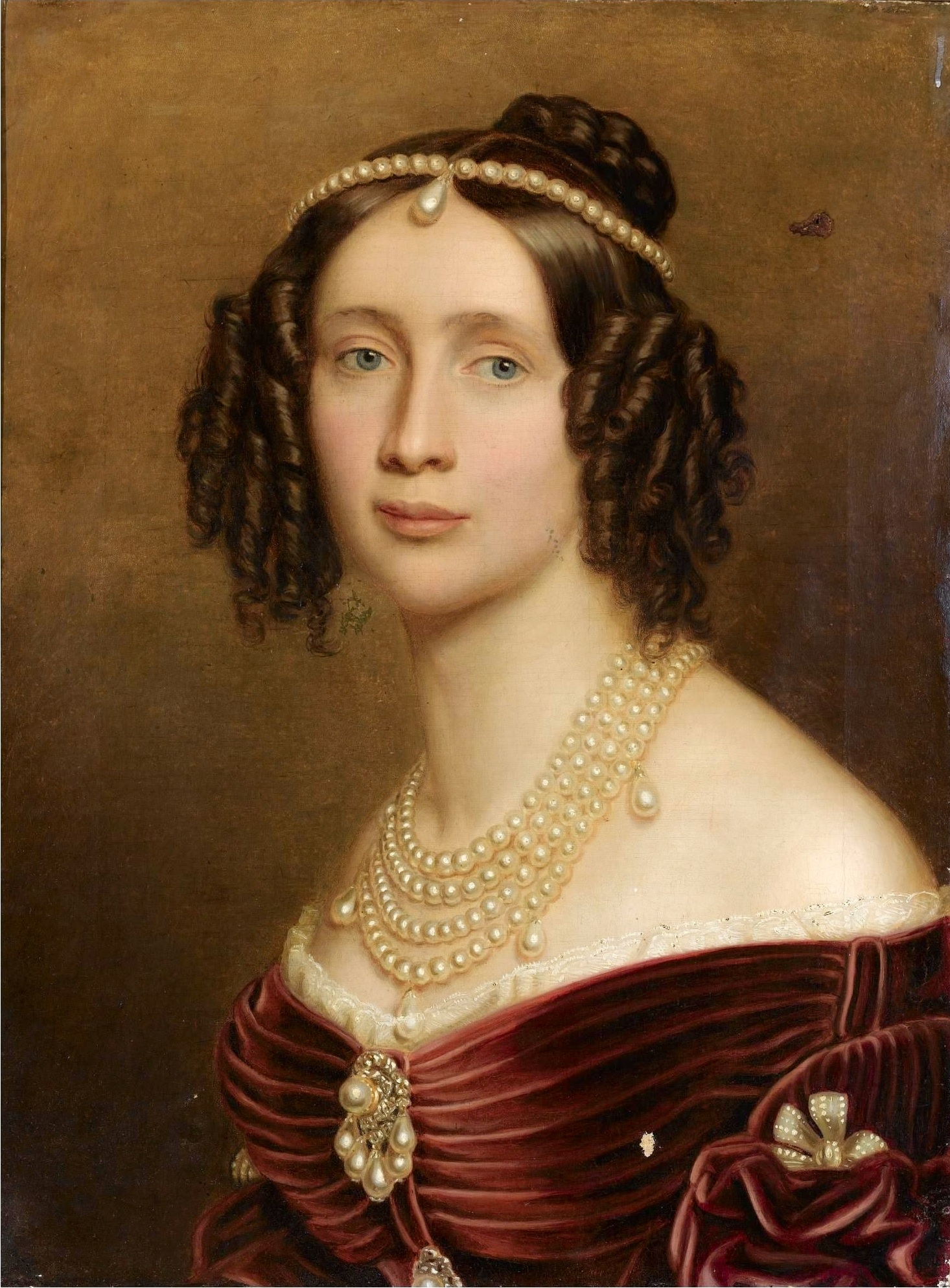 Maria Anna of Bavaria (1805–1877), Queen of Saxony, second wife of King Friedrich August II. So-called portrait of Princess Maria Anna of Saxony (1799–1832) (1799-1832), wife of Leopoldo II Grand Duke of Tuscany.